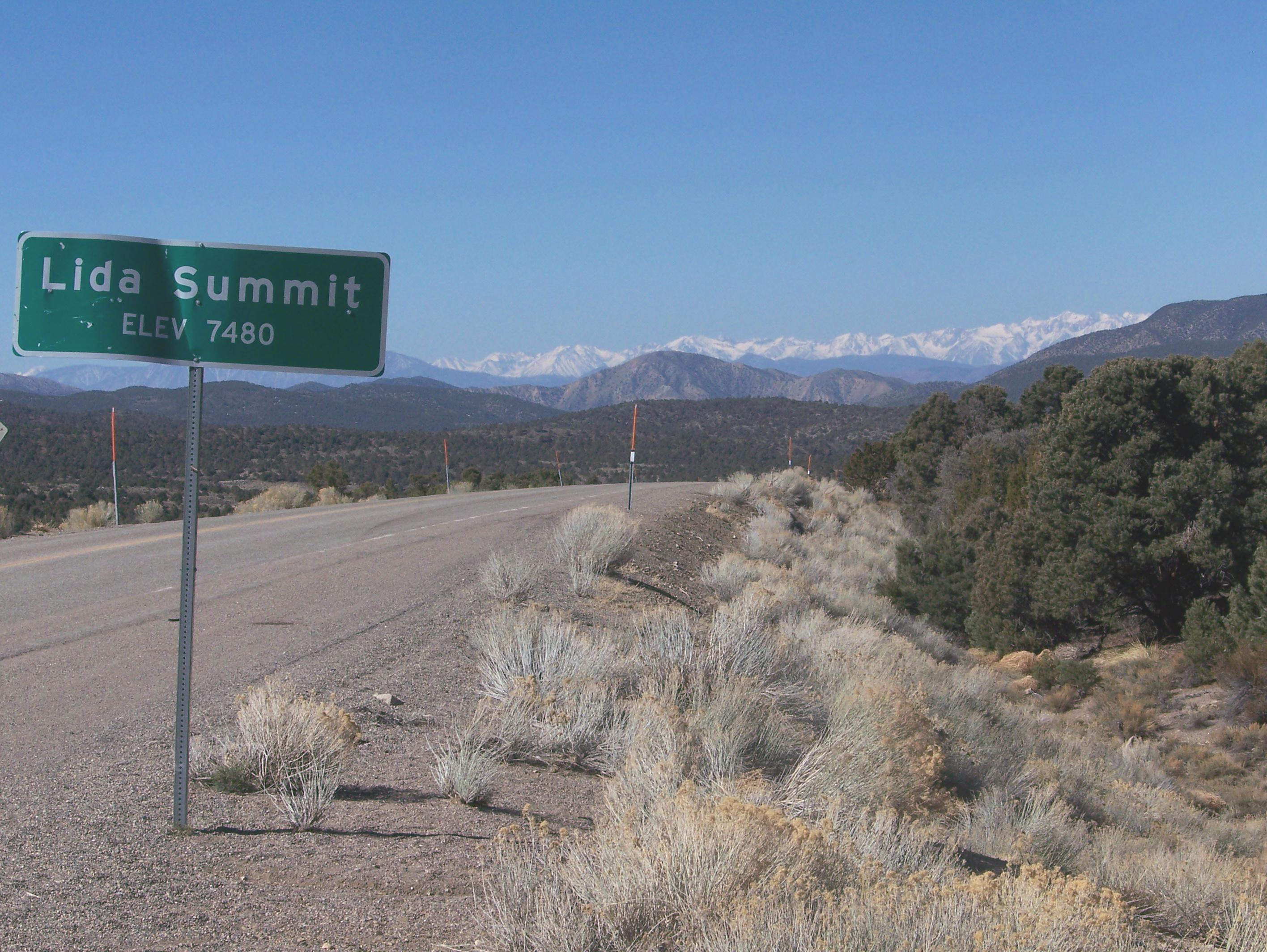 Lida Summit (elevation 7480 feet) on State Route 266 in Esmeralda County, Nevada, looking west at the Sierra Nevada mountains.